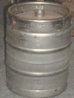 Stainless Steel Beer Kegs.